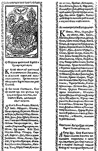 Facsimile of the title page of Abagar, the first book printed in modern Bulgarian. From Encyclopedia.bg